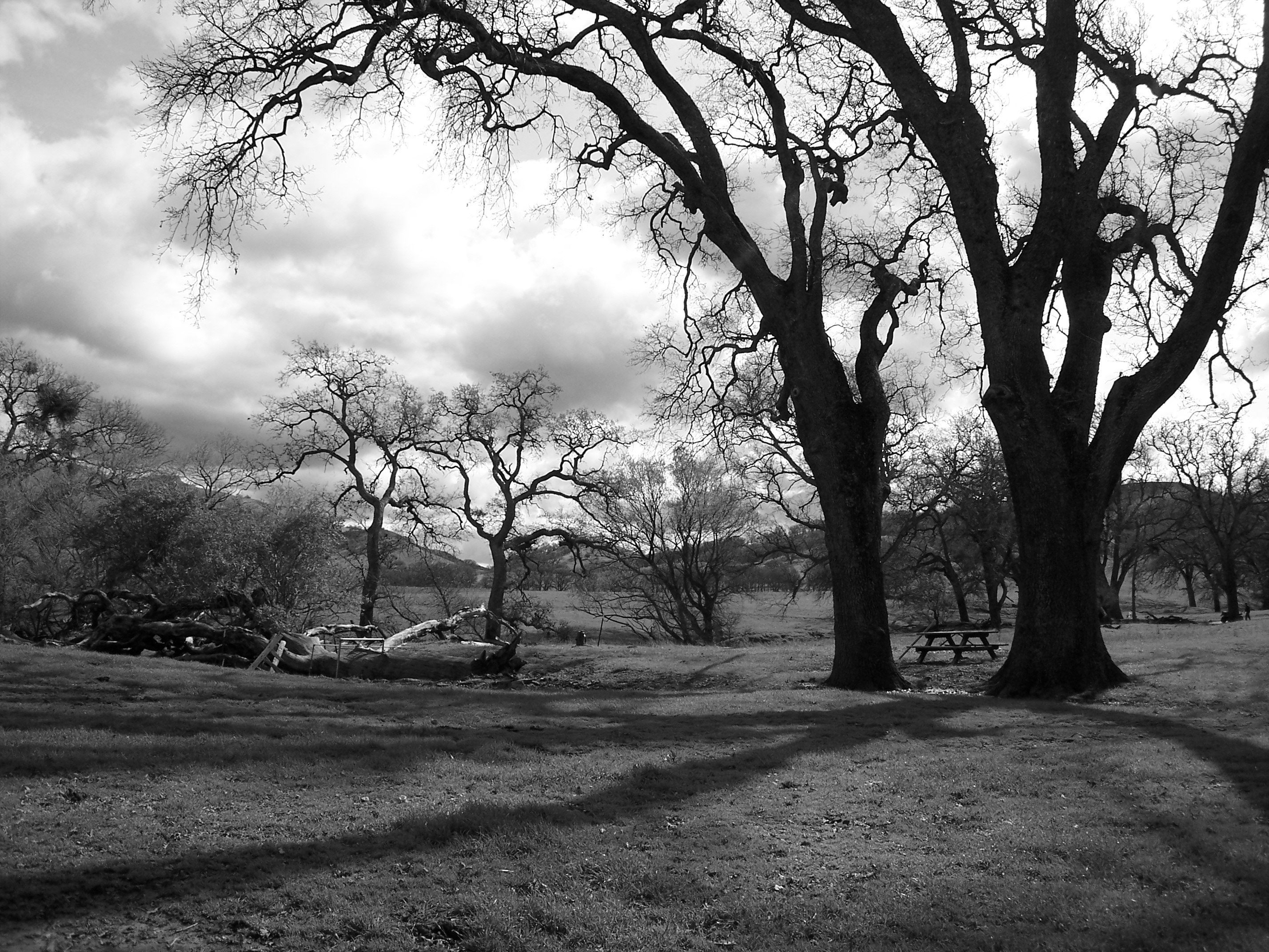 black and white photo taken in Round Valley Regional Park, Contra Costa County, California, United States of America.